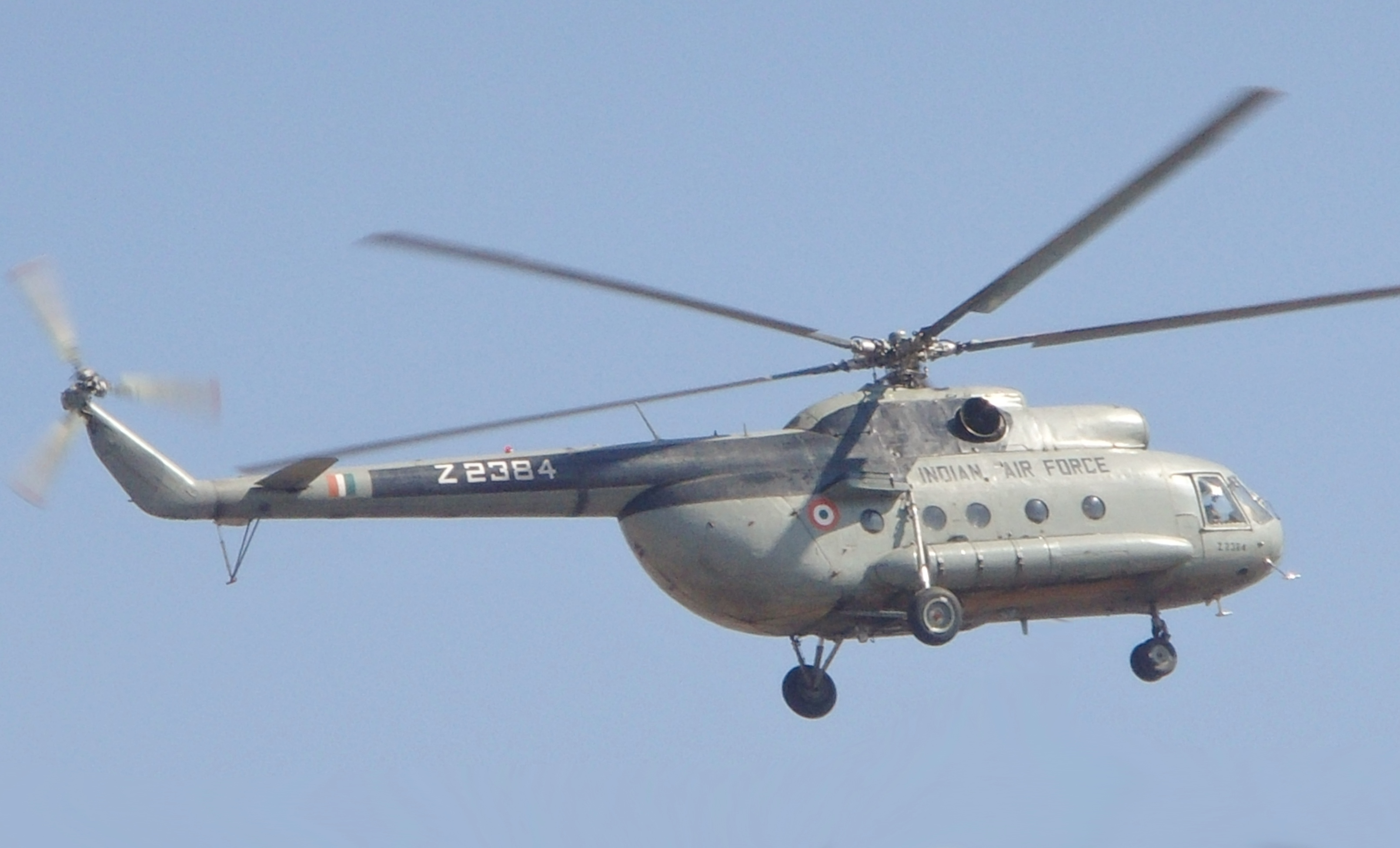 Mi-8 at Aero India 2011